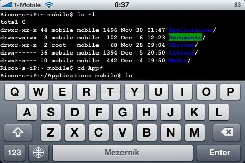 MobileTerminal running on my iPhone